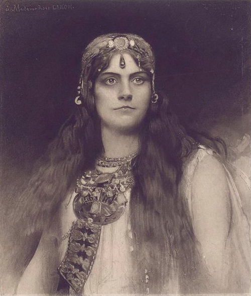 Rose Caron in the title role of Ernest Reyer's Salammbô by Antoine François Dezarrois (1864-1939) after Léon Bonnat (1833-1922). Title: "Portrait de Mme Rose Caron. Salon de 1896."